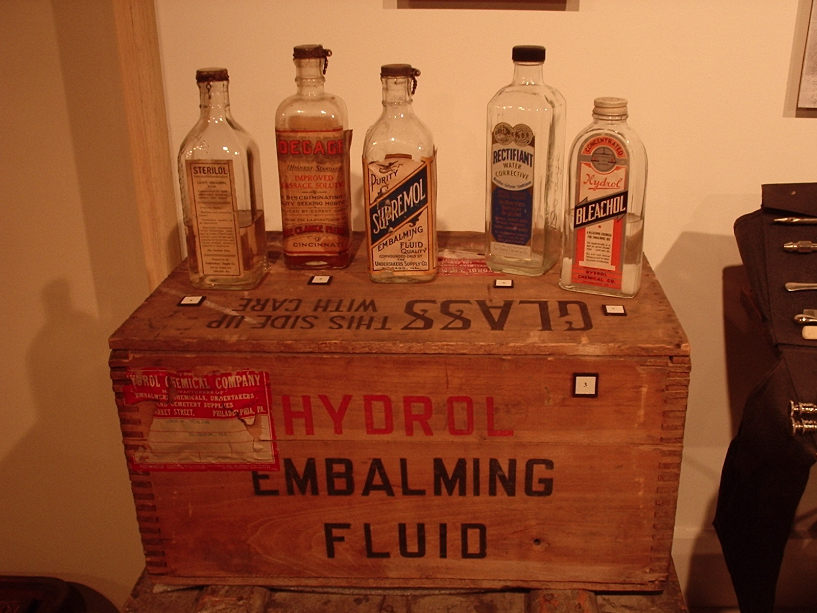 Taken by User:Mycota December 2004